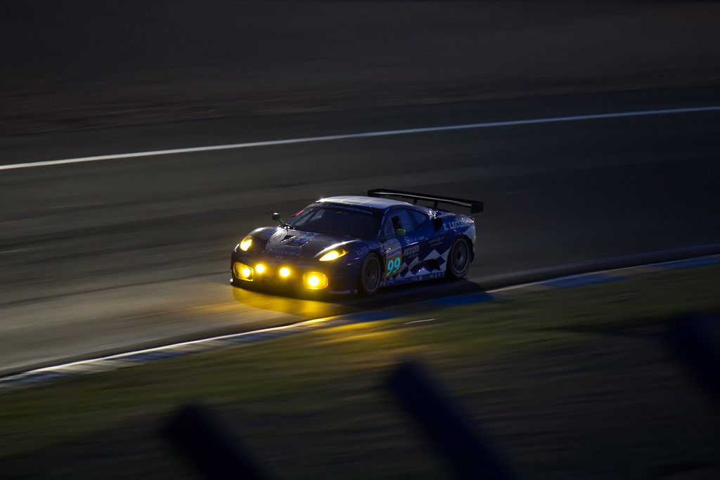 JMB Racing's Ferrari F430 GT2 at the 2009 24 Hours of Le Mans